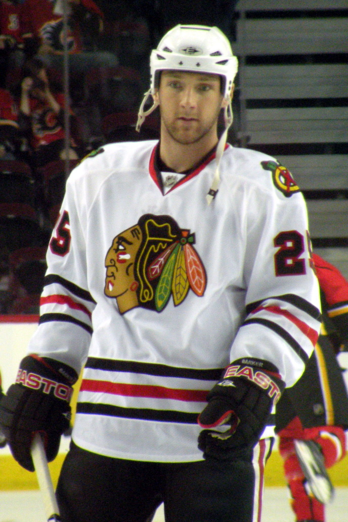 Chicago Blackhawks defenceman Cam Barker during warm up prior to a National Hockey League playoff game against the Calgary Flames, in Calgary.